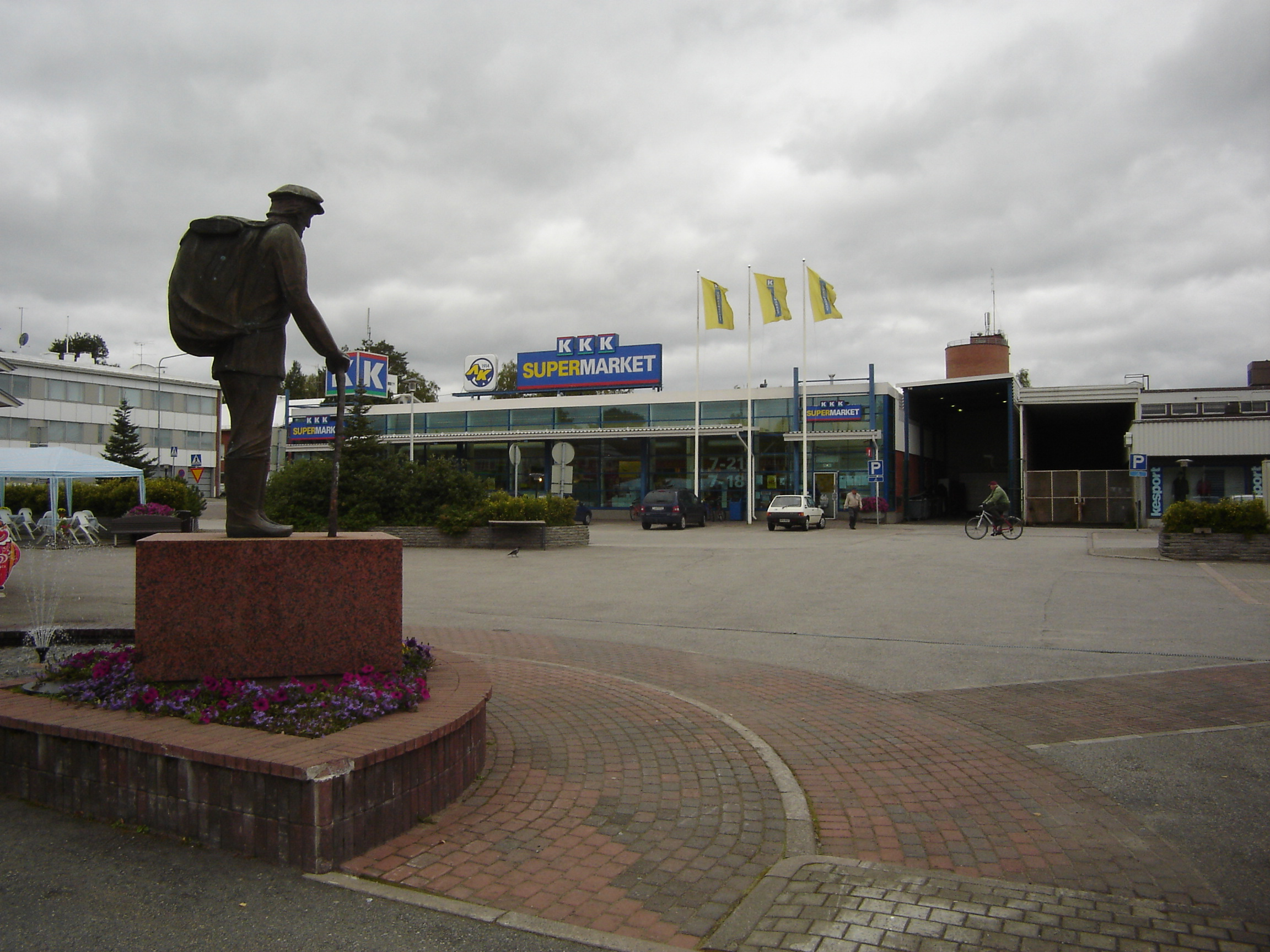 Market place of Kuhmo, Finland